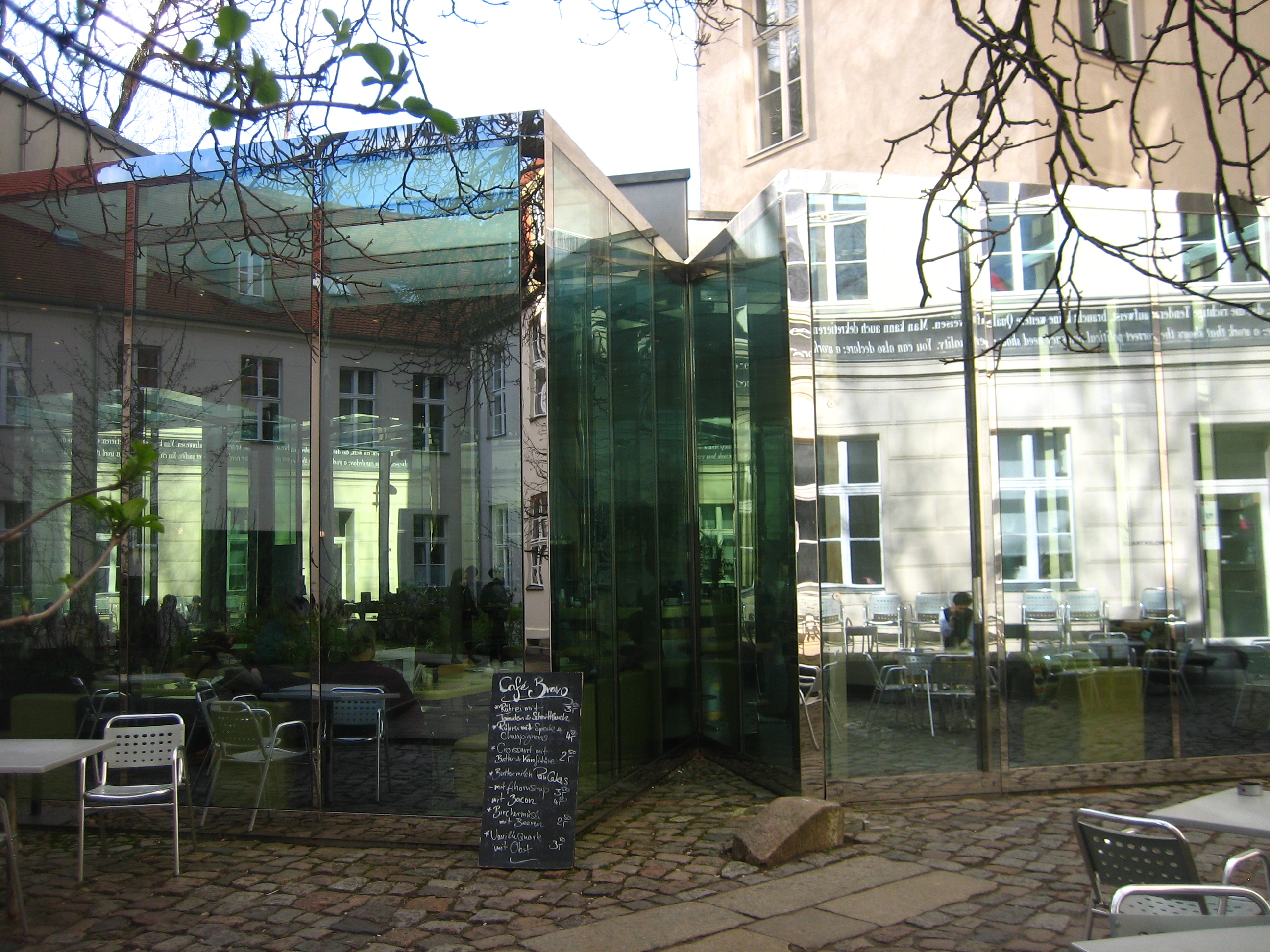 Courtyard of the art gallery Kunst-Werke in Berlin. The double glass box pavillion houses a cafe, and was designed by architect Dan Graham. Photo taken on March 18, 2008.